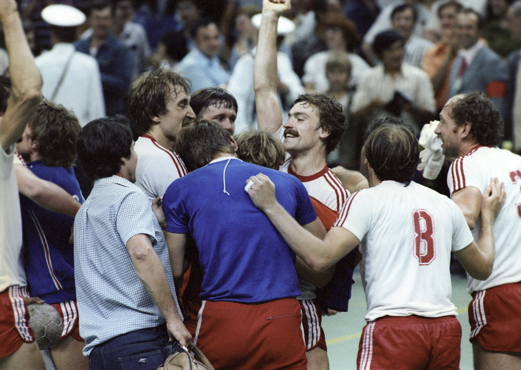 “USSR vs. Yugoslavia”. The 22nd Summer Olympic Games. A handball match between USSR and Yugoslavia. Soviet handball players celebrating their victory.